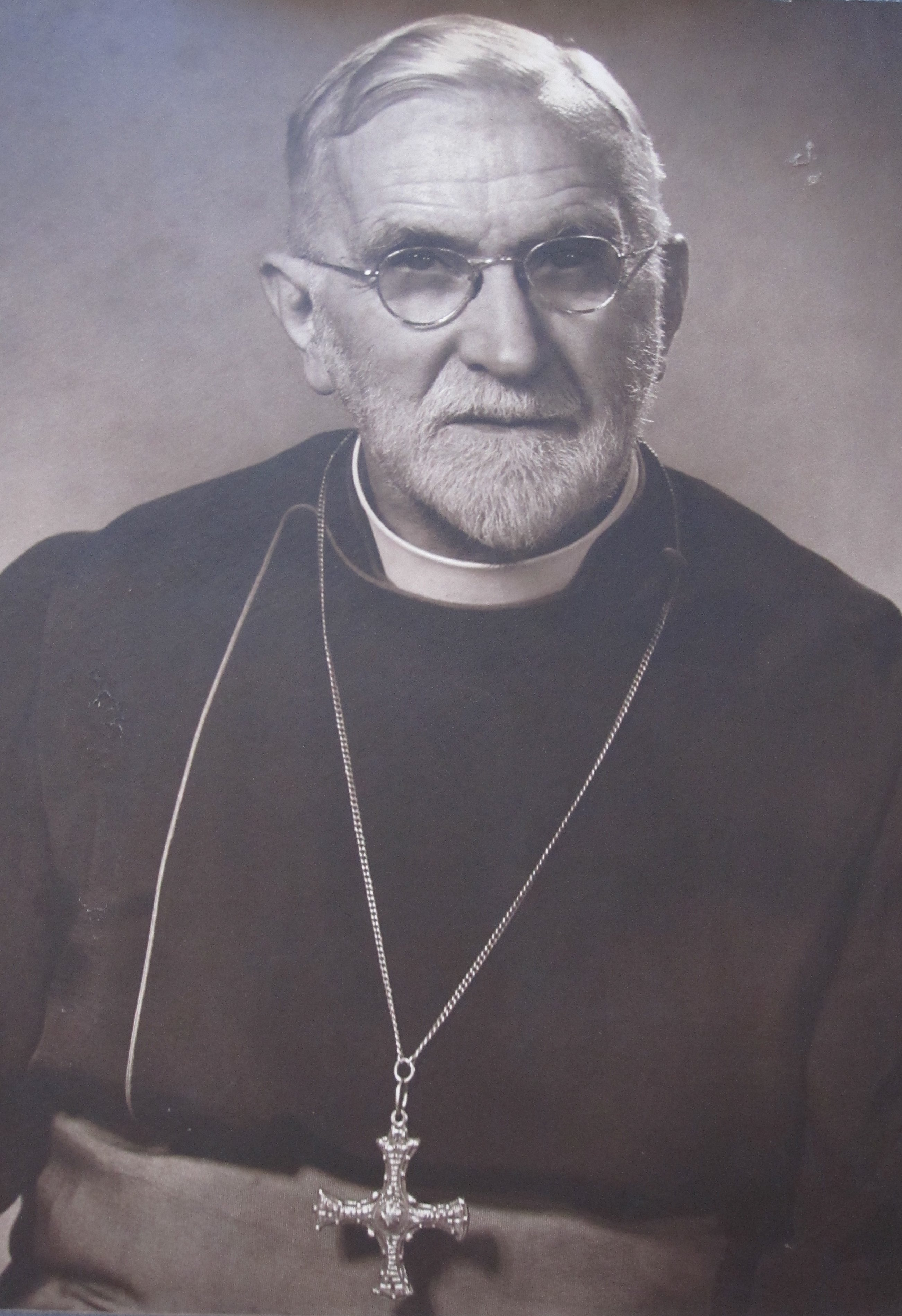 Picture taken from St. Paul's School, Darjeeling chronicle, 1949